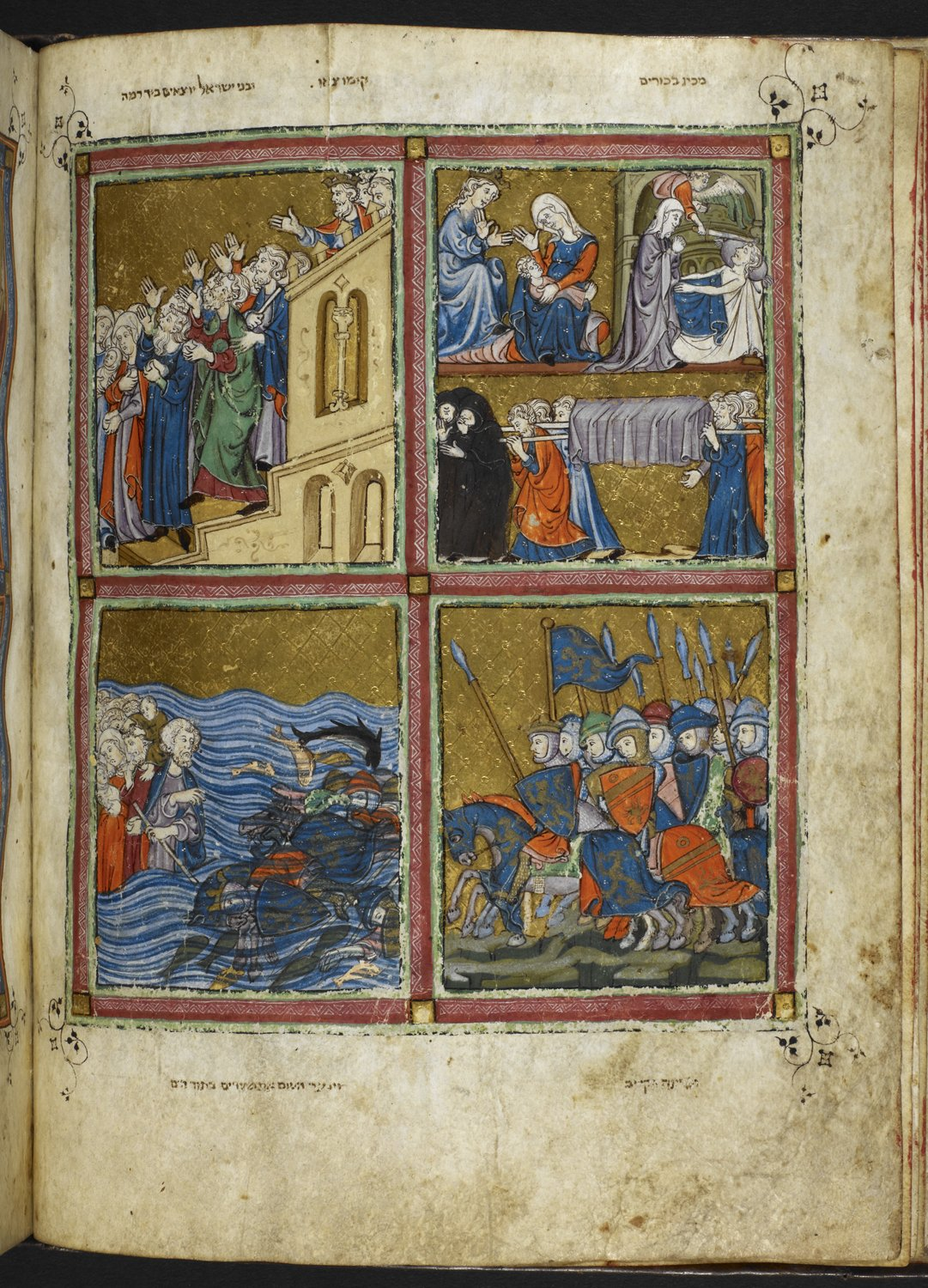 Exodus - The Golden Haggadah, fol. 14v